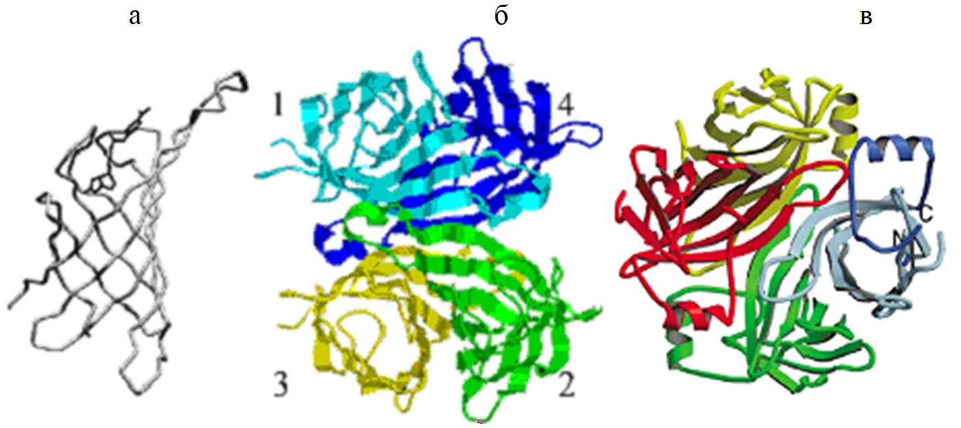 A simple view of streptavidin as homotetramer and its binding loop